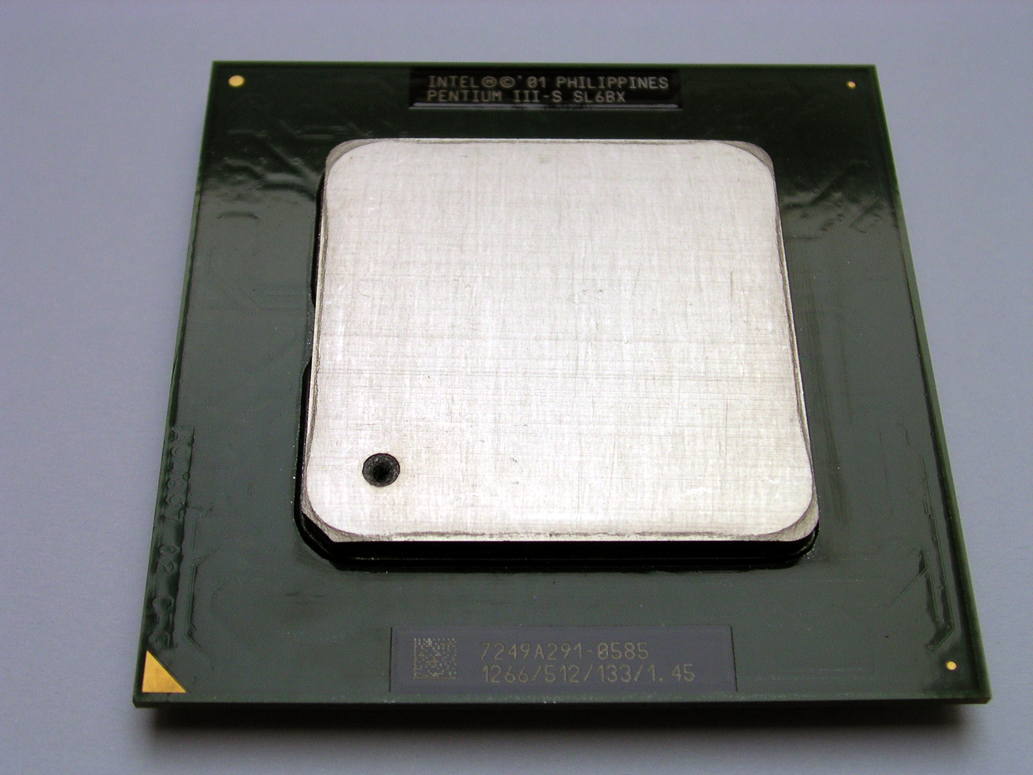 Intel Pentium III-S 1266 MHz Tualatin CPU (tB1-Step, 1,45 VCore, 133 MHz FSB, 512 Kbyte L2)